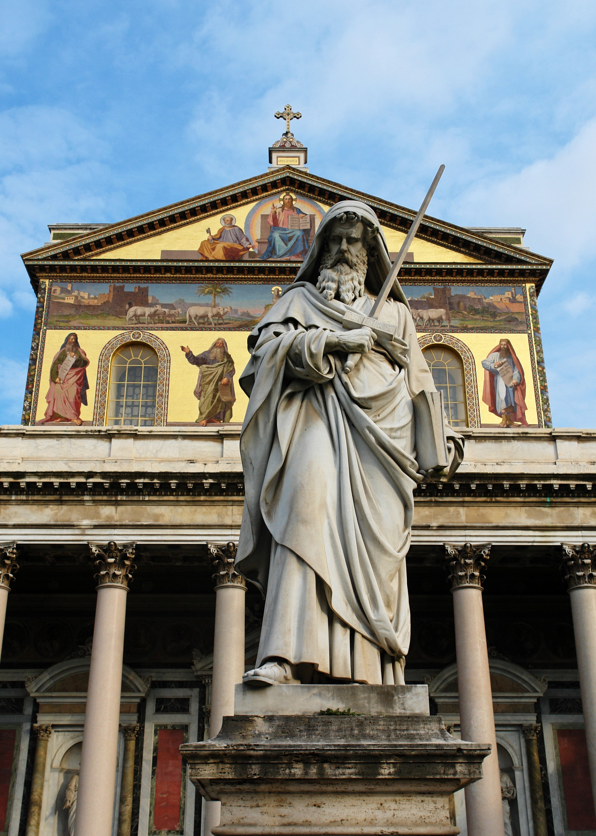 Front of the Basilica of Saint Paul Outside the Walls - Roma - Italy.